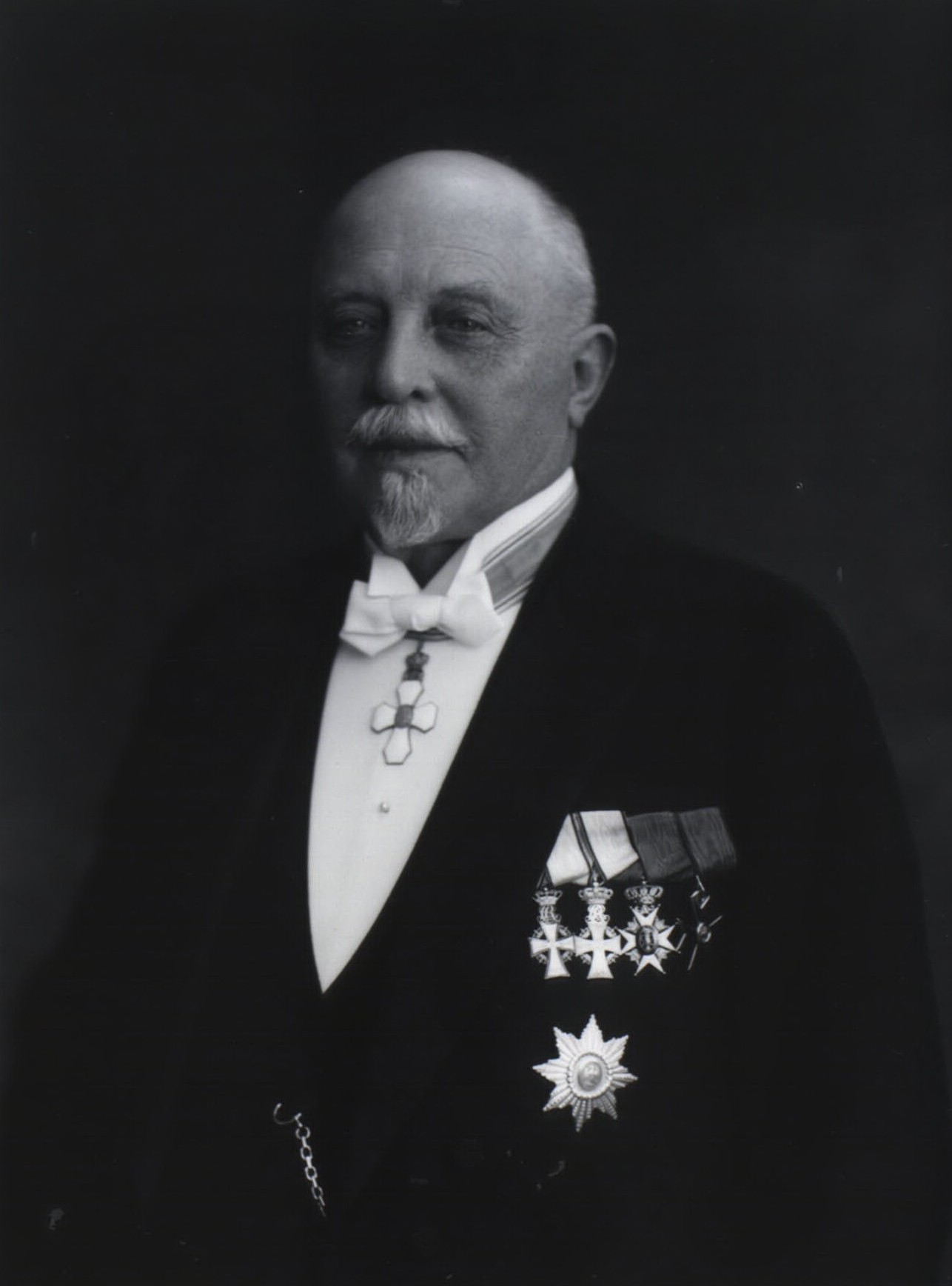 Danish engineer and Minister of Public Works Niels Christensen Monberg (1856-1930)